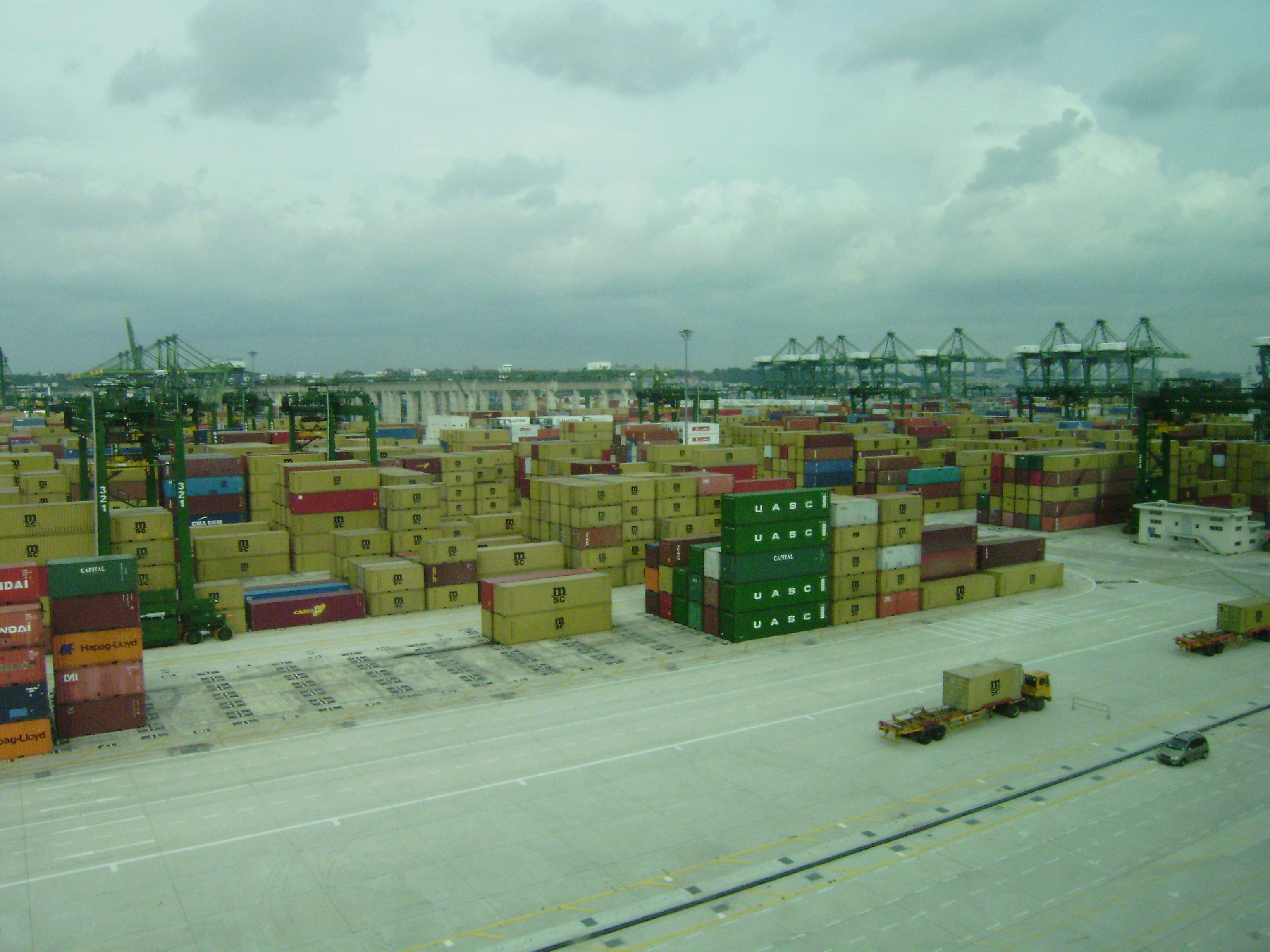 View of the Pasir Panjang Container Terminal, Singapore, from a ship alongside it.